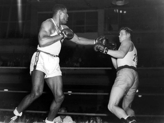 Ed Sanders vs Ingemar Johansson at the 1952 Olympics